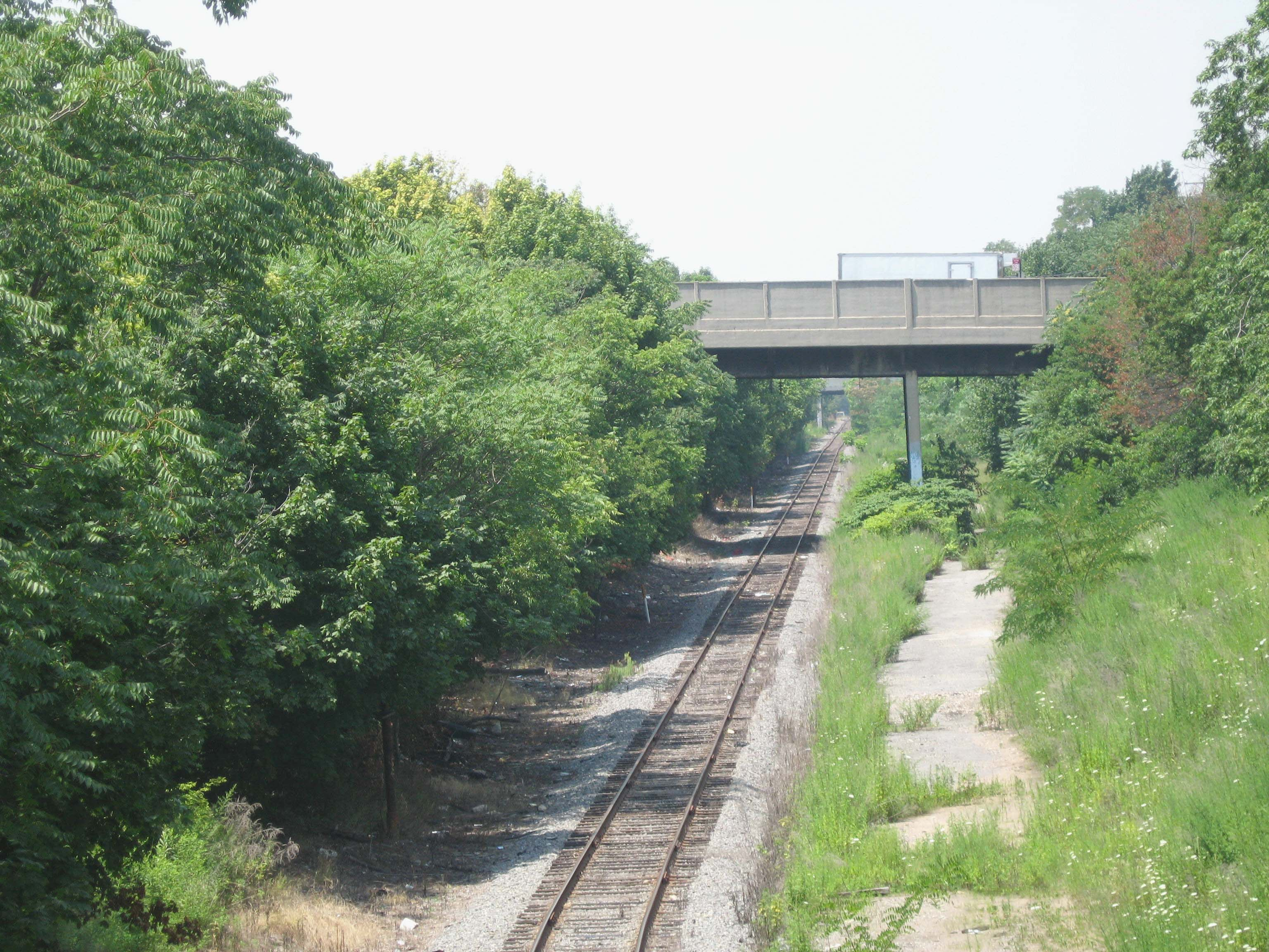 Looking west from 14th Avenue overpass in Borough Park, Brooklyn, along Bay Ridge Branch on a sunny midday